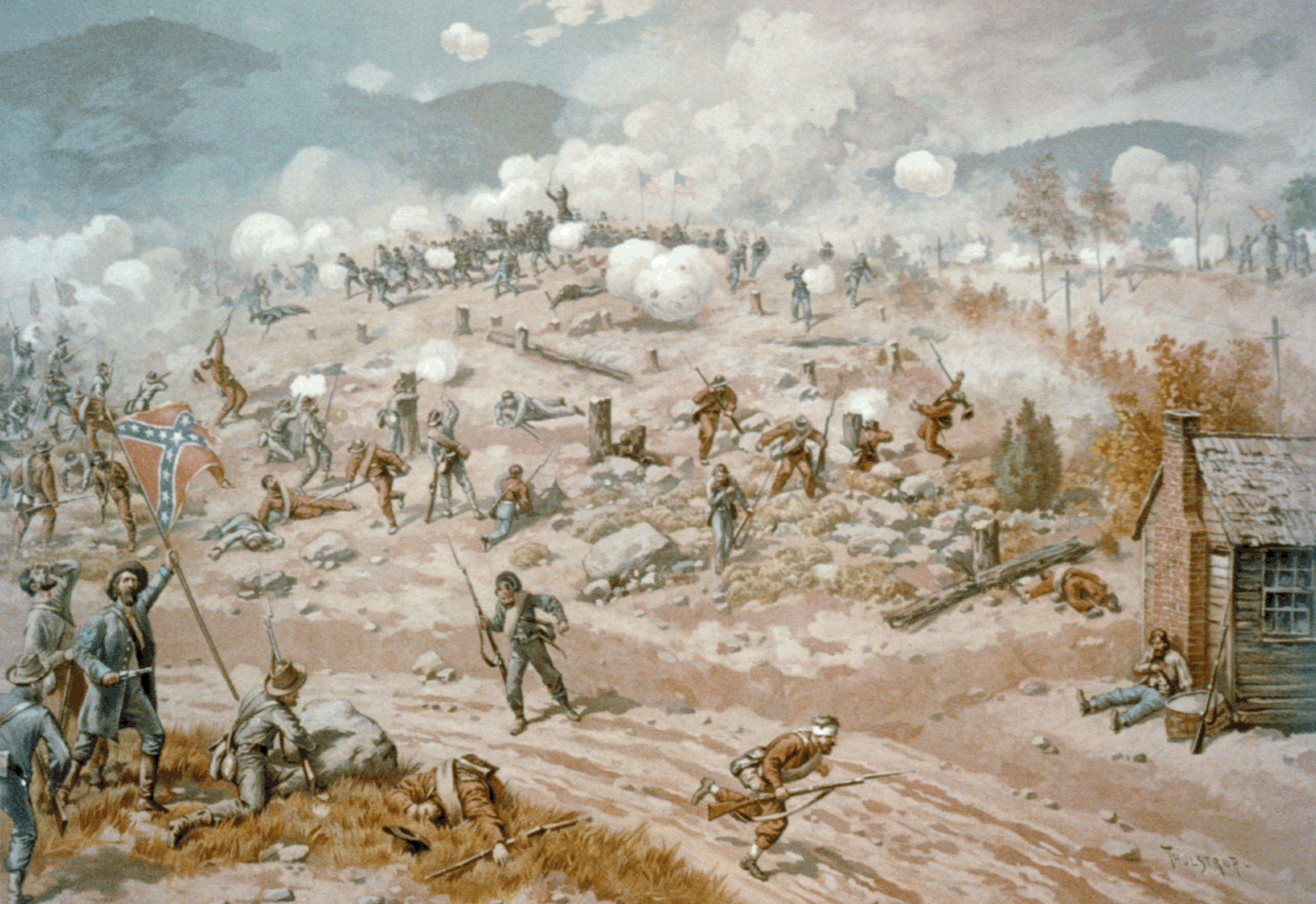 Battle of Allatoona.